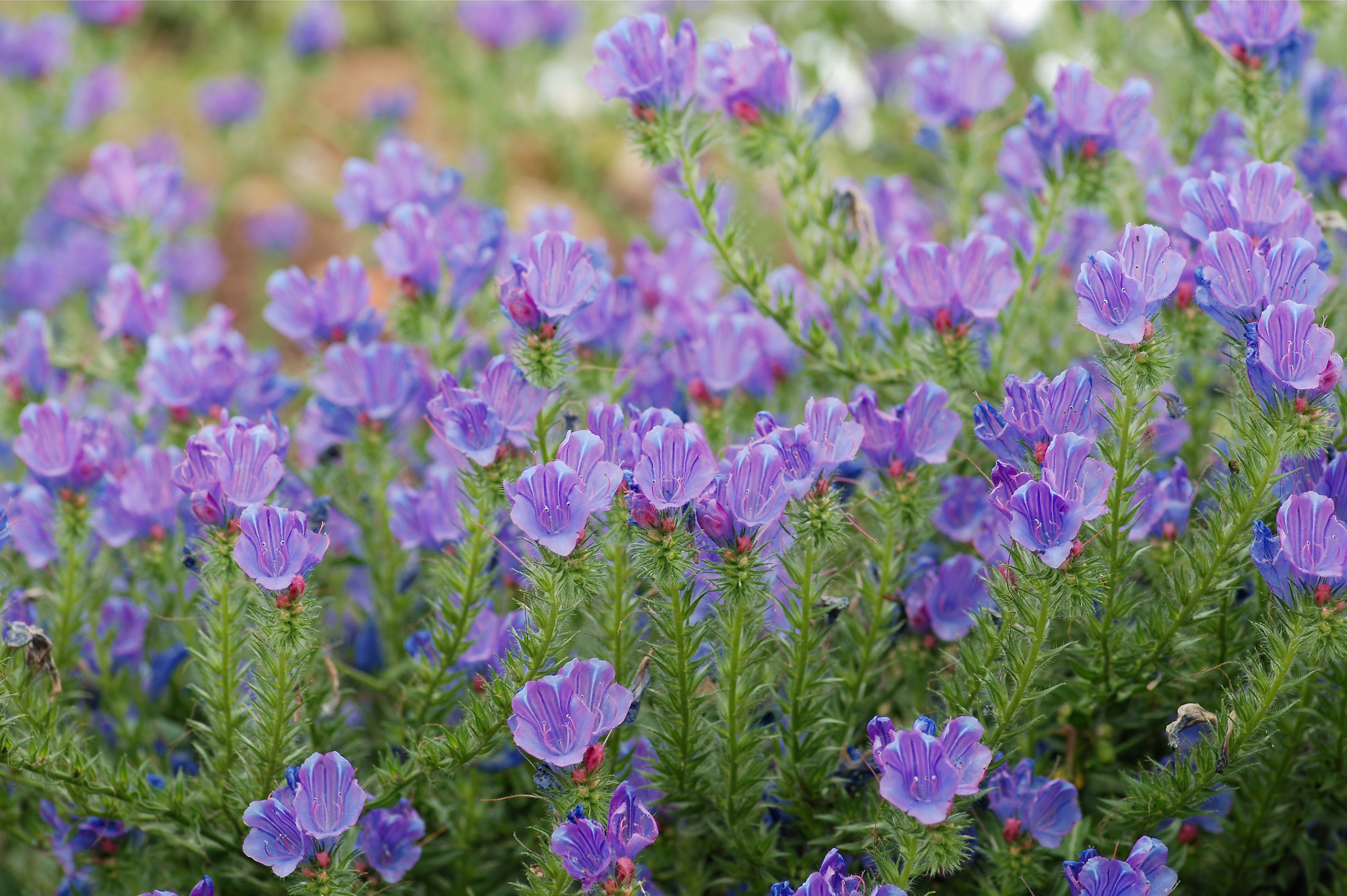 Flowers of Bugloss (Echium cf. plantagineum)